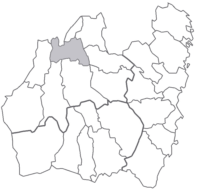 Map describing the location of Tveta Hundred in the province of Småland, Sweden.